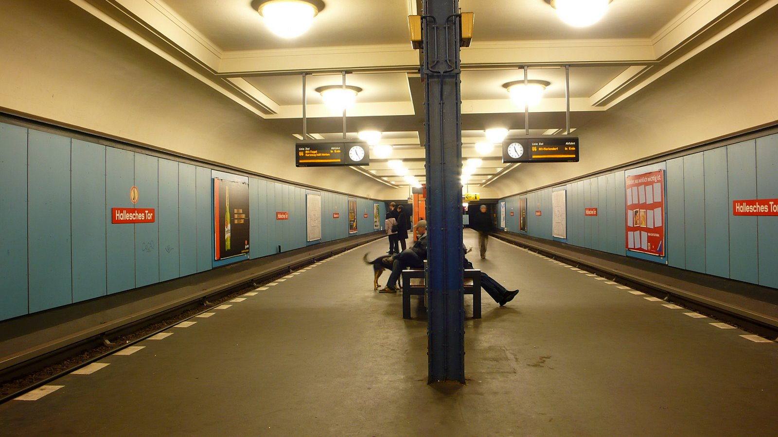 Subway Halleschestor